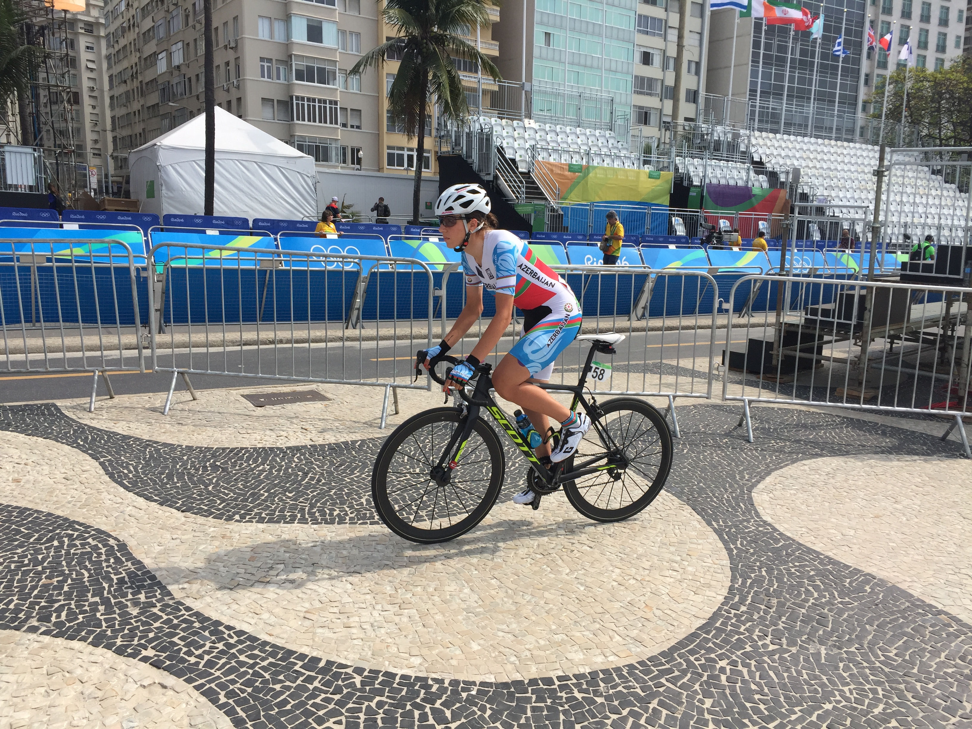 Rio 2016 - Women's road race